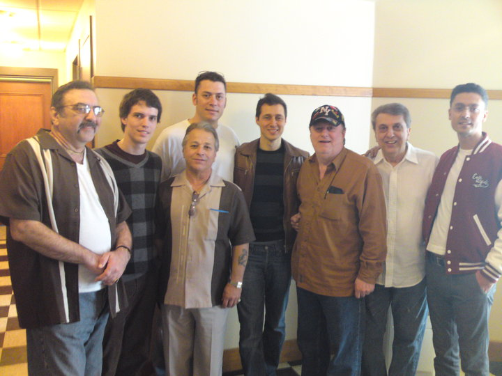 The Spanish Doo wop band Earth Angels with the band of this same genre Randy & the Rainbows. The picture was taken during their participation in the Doo wop festival celebrated at the Hotel Hilton in Pittsburgh, Pensilvania in May 2010, with the greatests of the American vocal group bands of this genre during the 20st century.